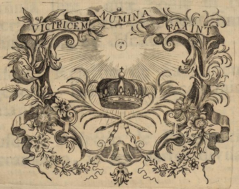 Remondini's mark